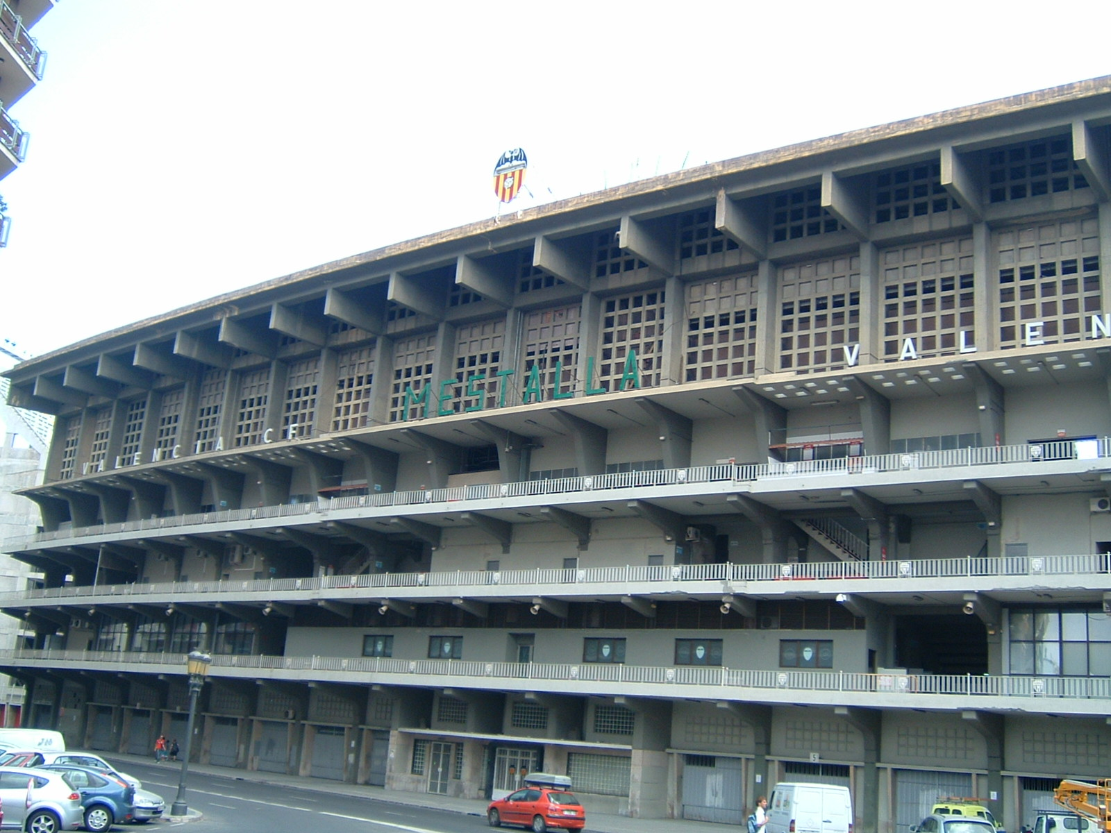 Personal picture of Mestalla stadium in Valencia.